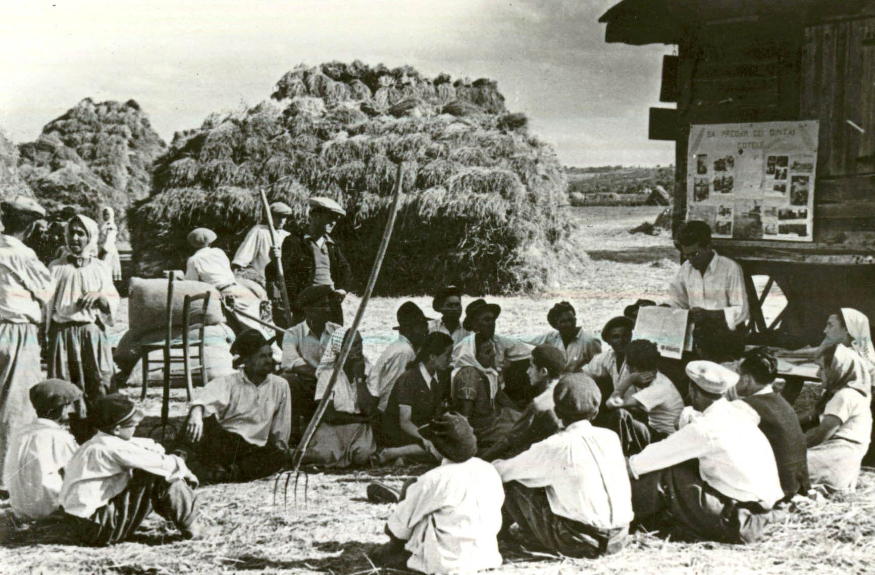 Peasants being read a newspaper in Livezeni, Argeş County, Romania in 1950